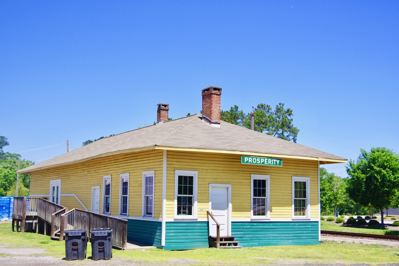 Former train station in Prosperity, South Carolina, United States.